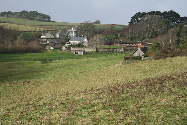 Holbeton: Mothecombe House Seen from a path linking Meadowsfoot Beach and the car park at Mothecombe